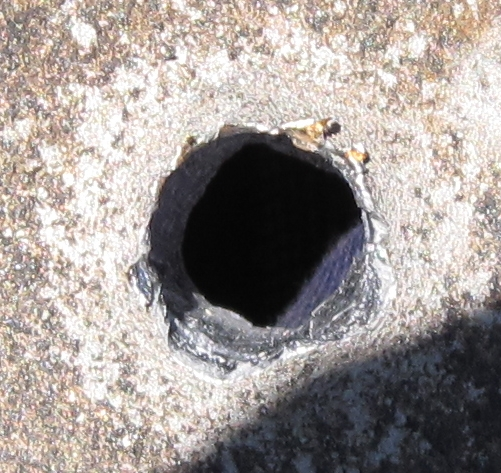 Hole of 7.62x54mmR shoot fomr Mosin-Nagant 1891/30 at 50m on 15mm steel.